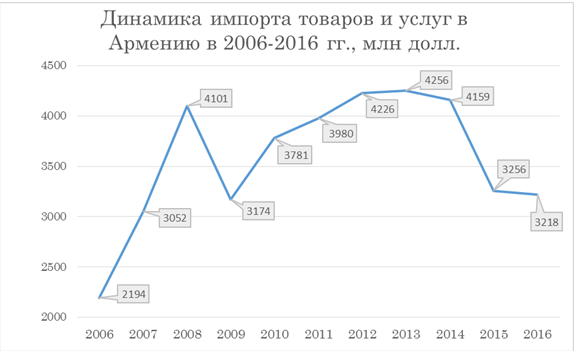 Dynamics of imports of goods and services to Armenia in 2006-2016., millions of $ US